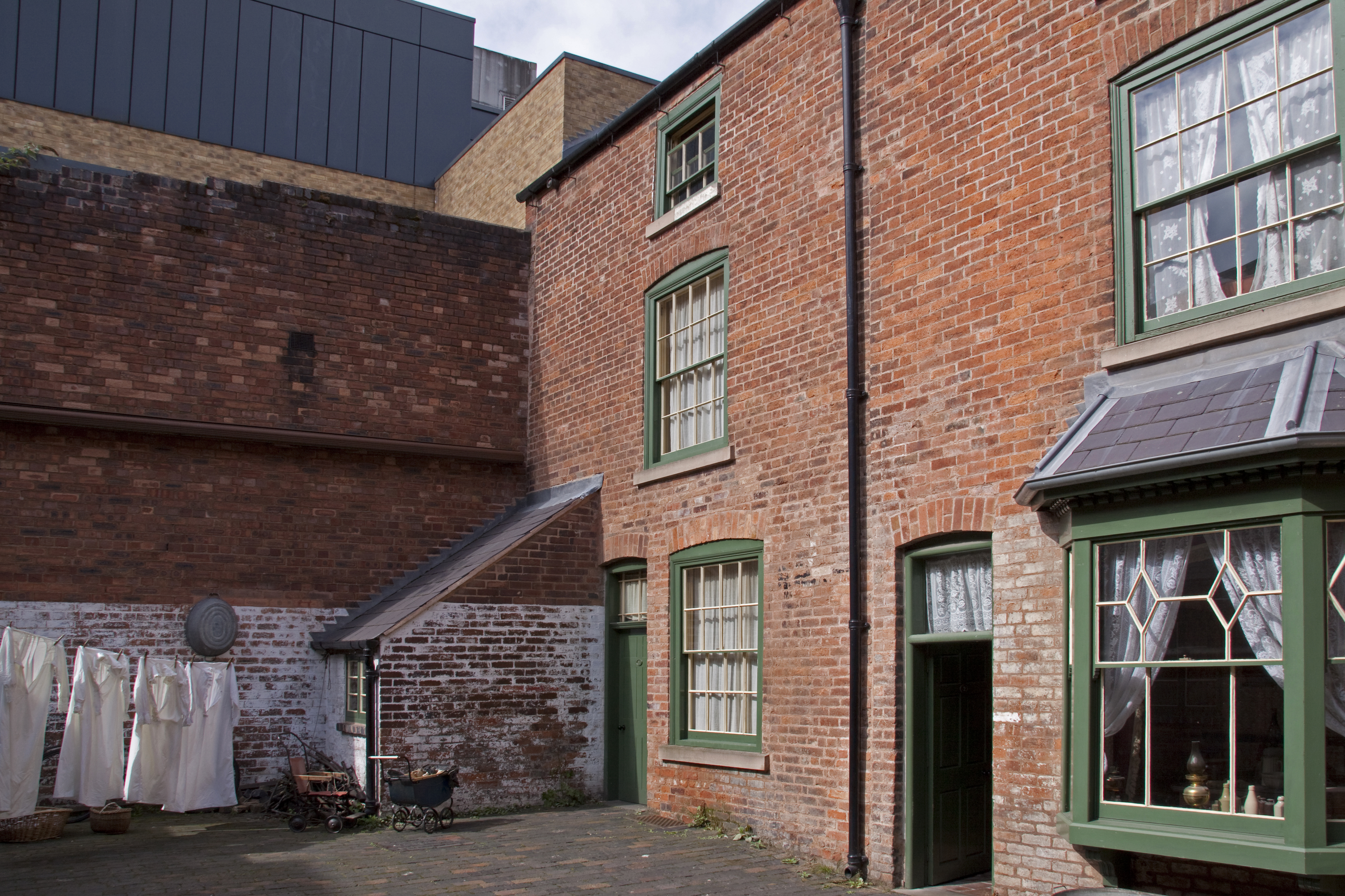 We had never been to the Back to backs in Birmingham even though the car park we often use is only a few minutes walk from the houses.